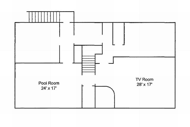 Floorplan of the basement of the Gracland Mansion in Memphis, Tennessee. From the nomination of Graceland for a National Historic Landmark.